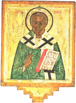 Saint_Nicholas. The Icon from the Church of Laying Our Lady’s Holy Robe from the village of Borodava near Ferapontov Monastery.